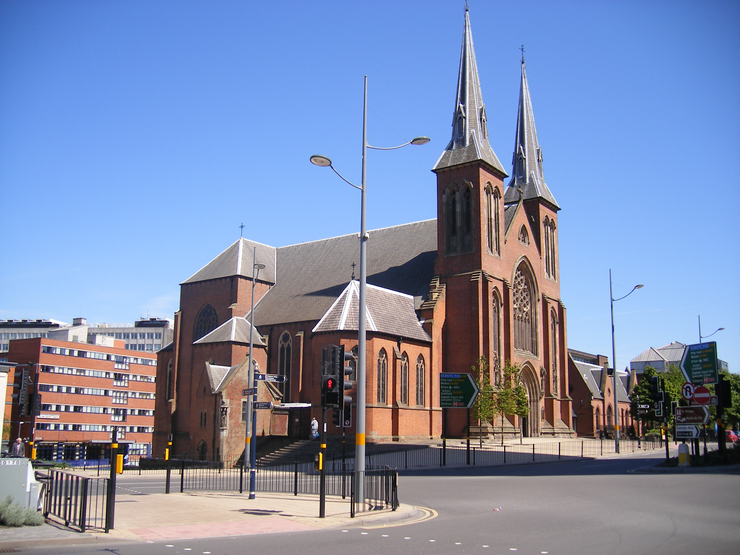 Built between 1839-41, it was the first catholic cathedral built in England after the English Reformation of the 16th Century. It became a Minor Basilica in 1941.